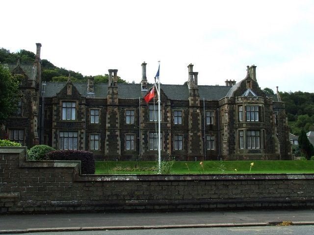 Sir Gabriel Woods Mariner's Home. The west wing of this grand building on Newark Street. See also 559692, 559677 and 559683.